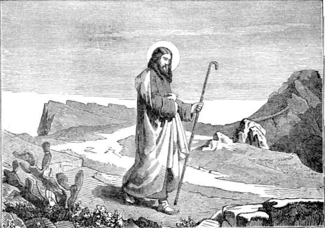 Saint Matthias, who replaced Judas Iscariot as apostle.